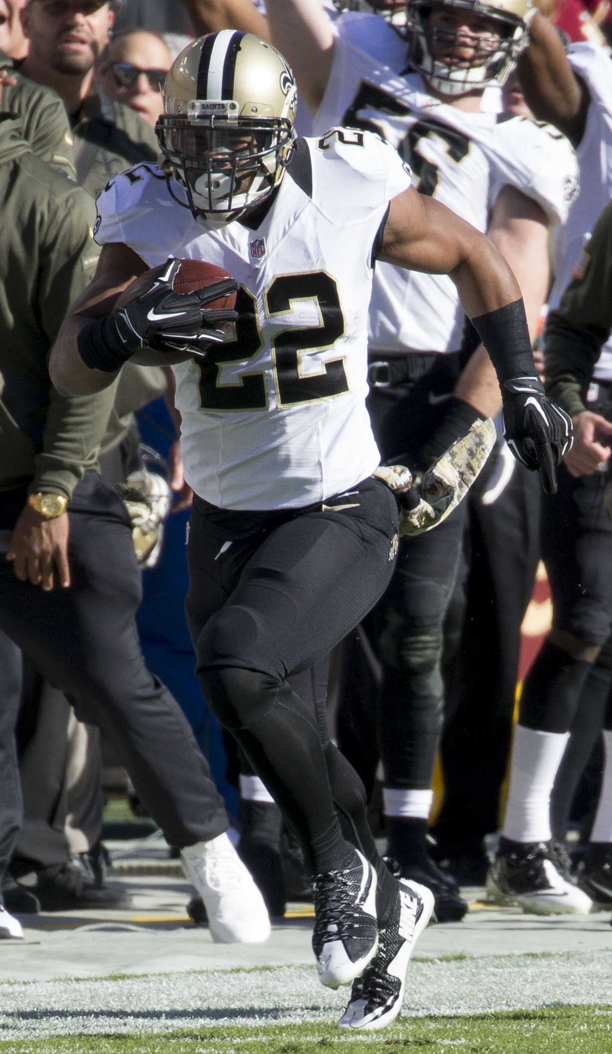 Saints at Redskins 11/15/15